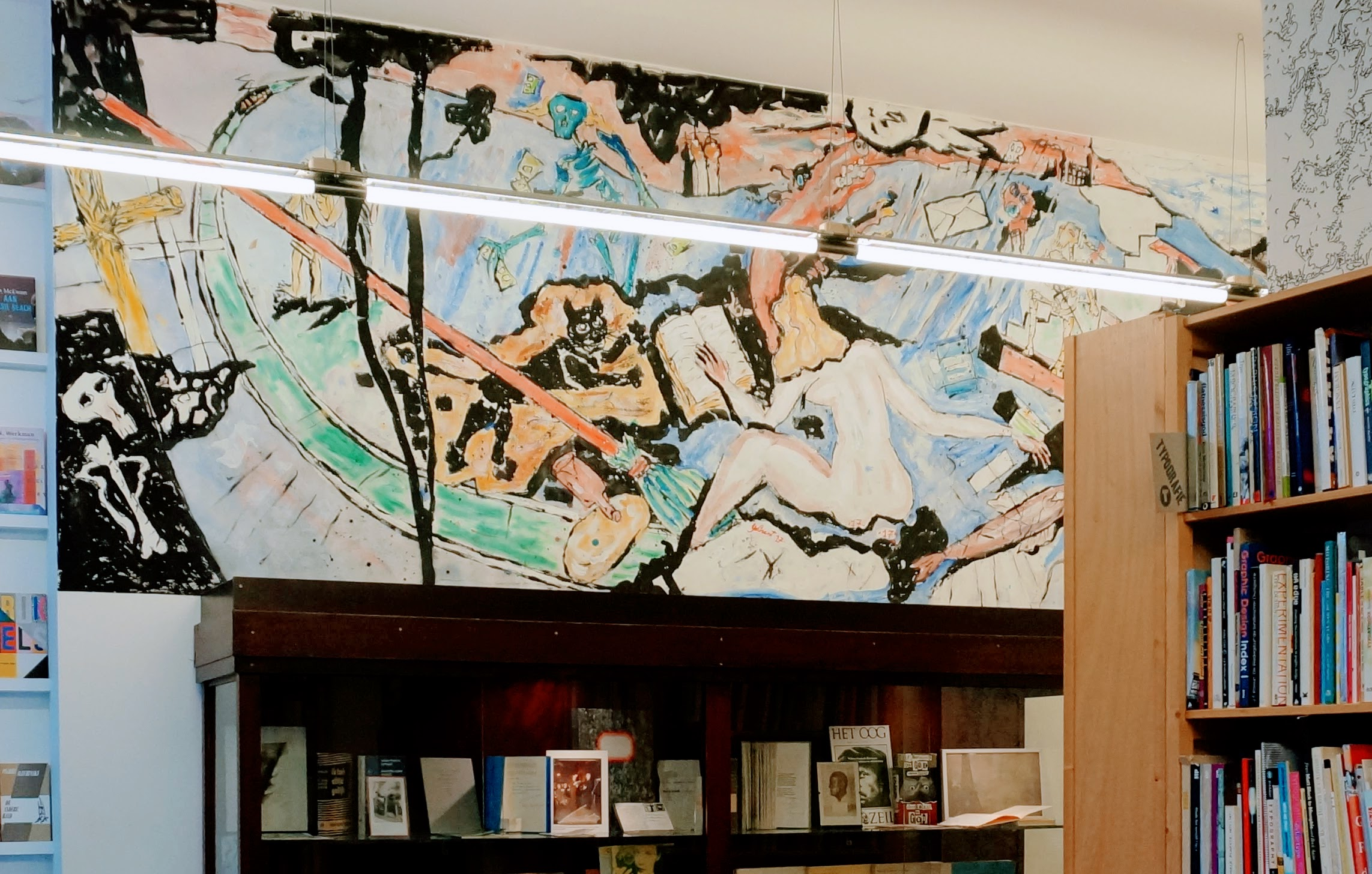 Wallpainting 'The Master and Margarita' by Dutch painter Ysbrant at second hand book shop Demian, Antwerp, Belgium